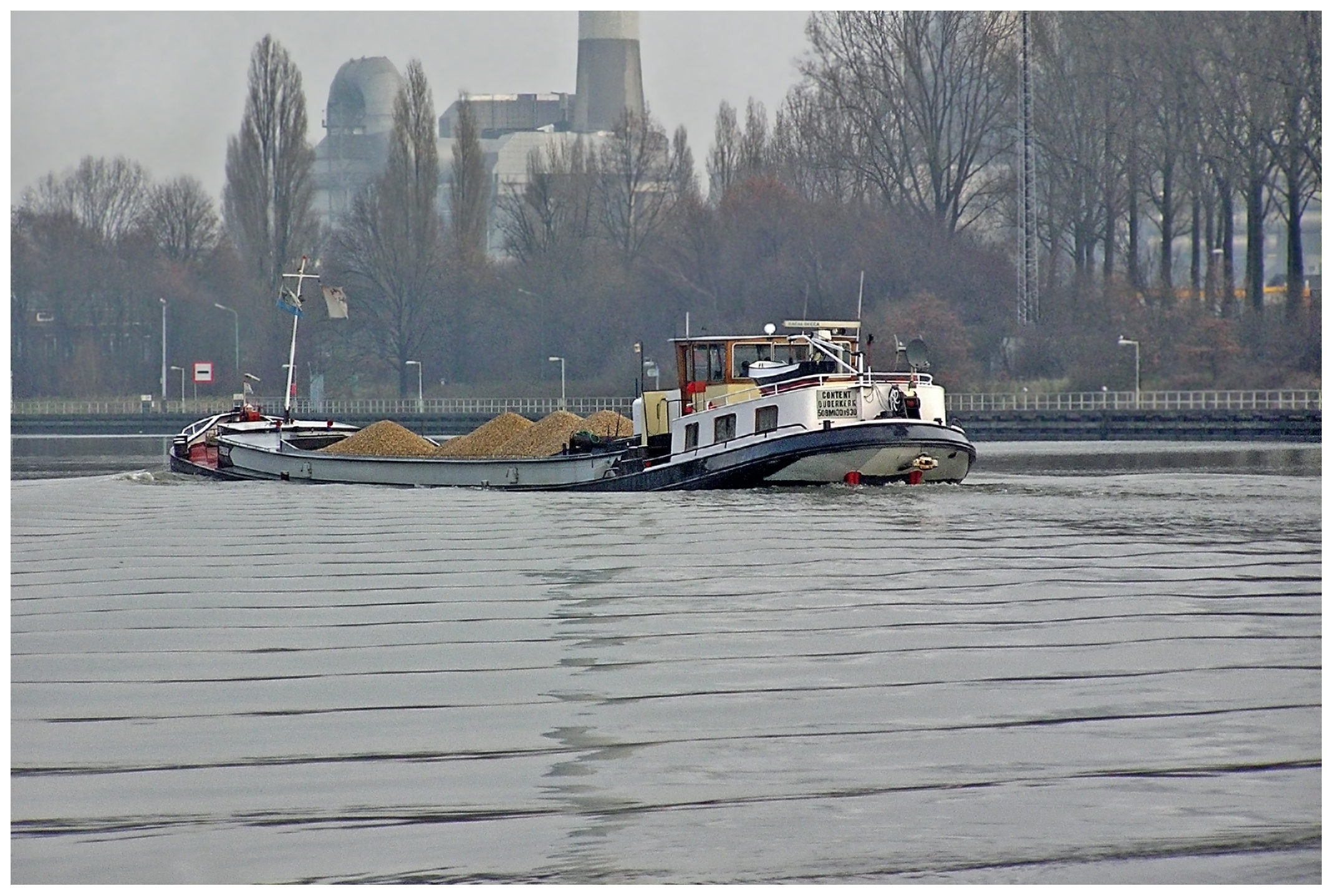 Comment by the author on Flickr: A boat on the Maas-Waalkanaal, Nijmegen, The Netherlands. I had to run to make this shot. A lot of levelpumping in PS.